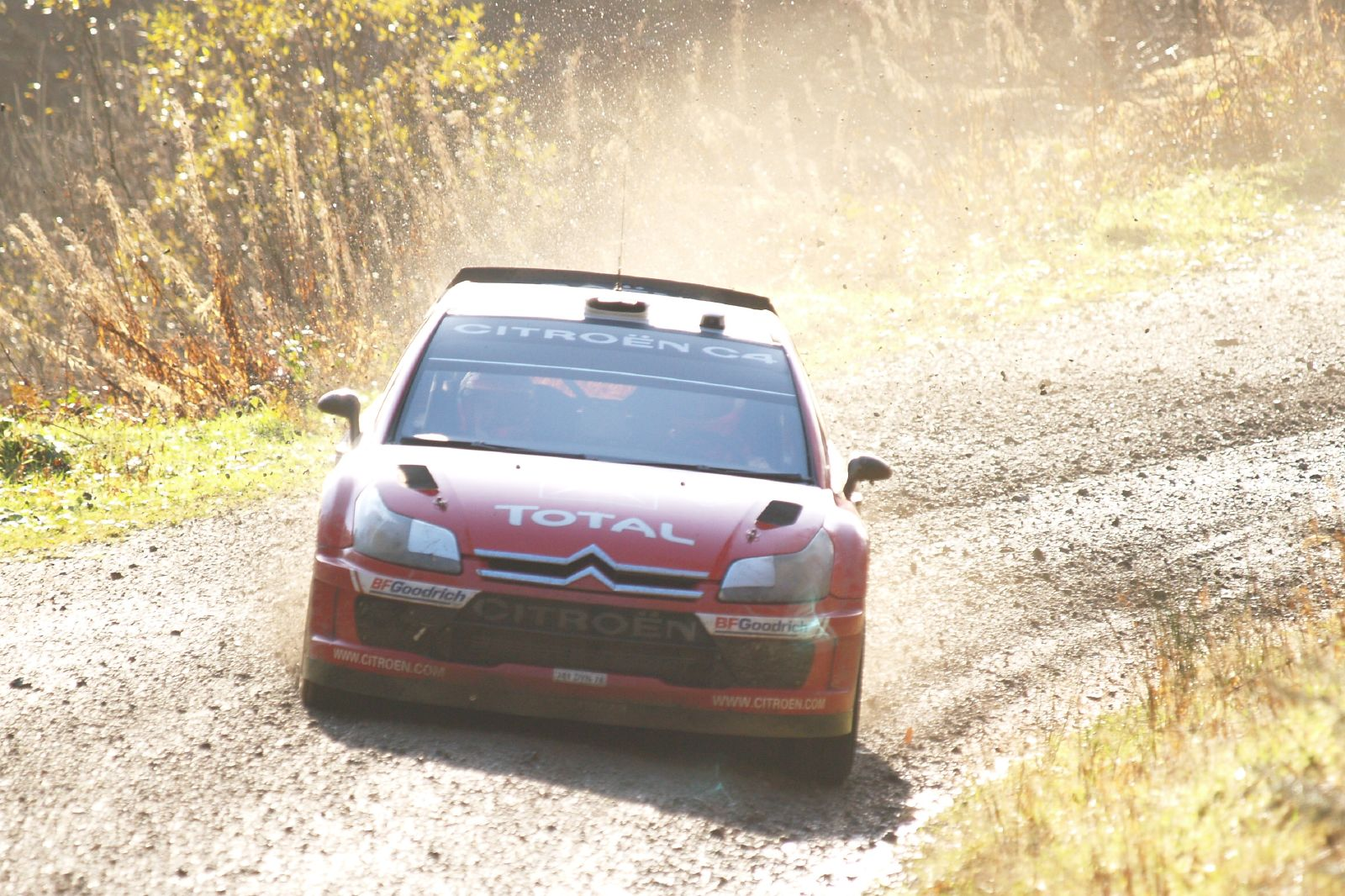 Sébastien Loeb driving his Citroën C4 WRC during 2007 Wales Rally GB.